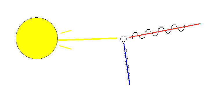 Image created in order to show the effect of scattering (Rayleigh and Tyndall effect). Short wave length (blue light) are scattered, longer waivelength light than the particle (red) passes by.